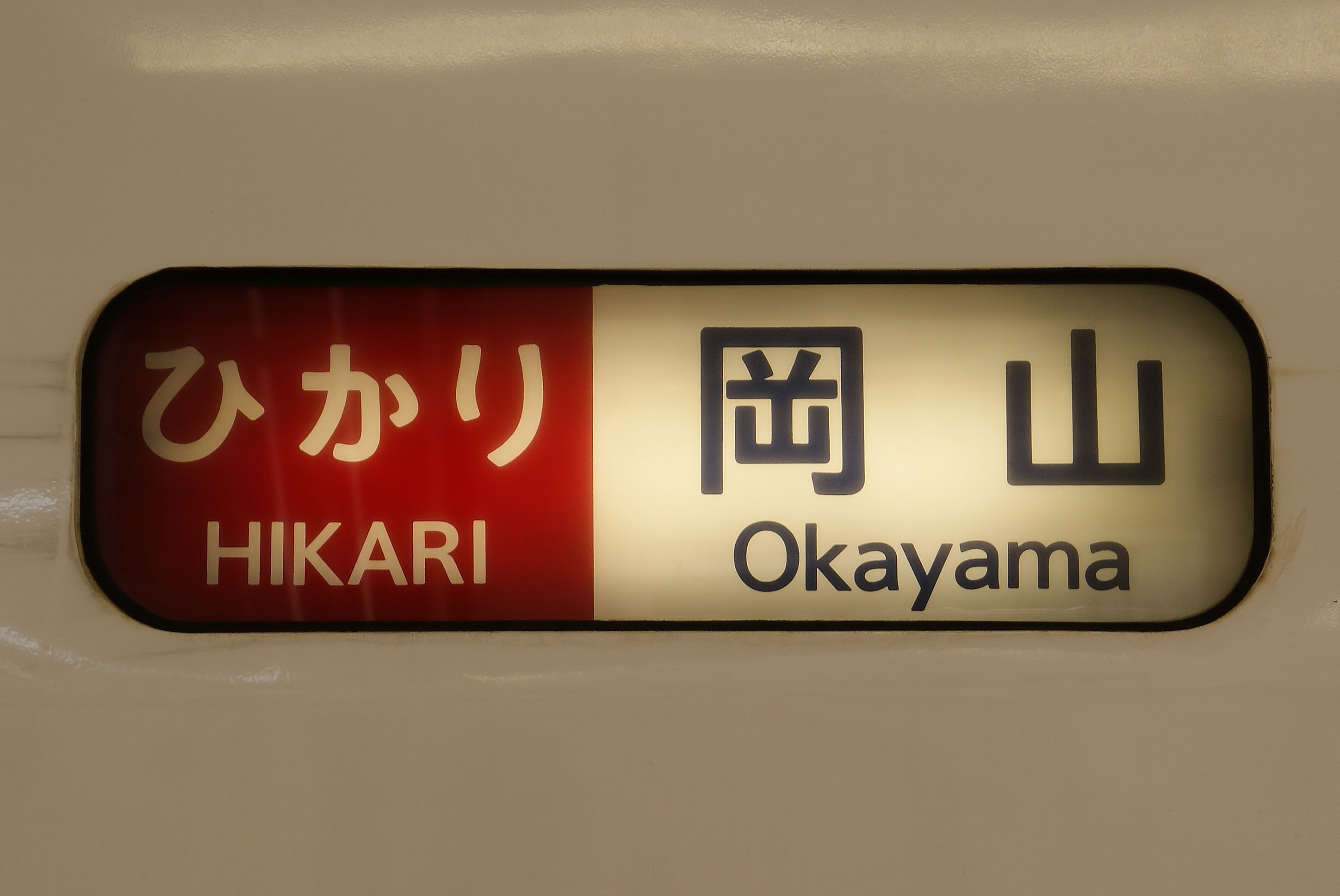 Destination Sign of Central Japan Railway, Series 700-0